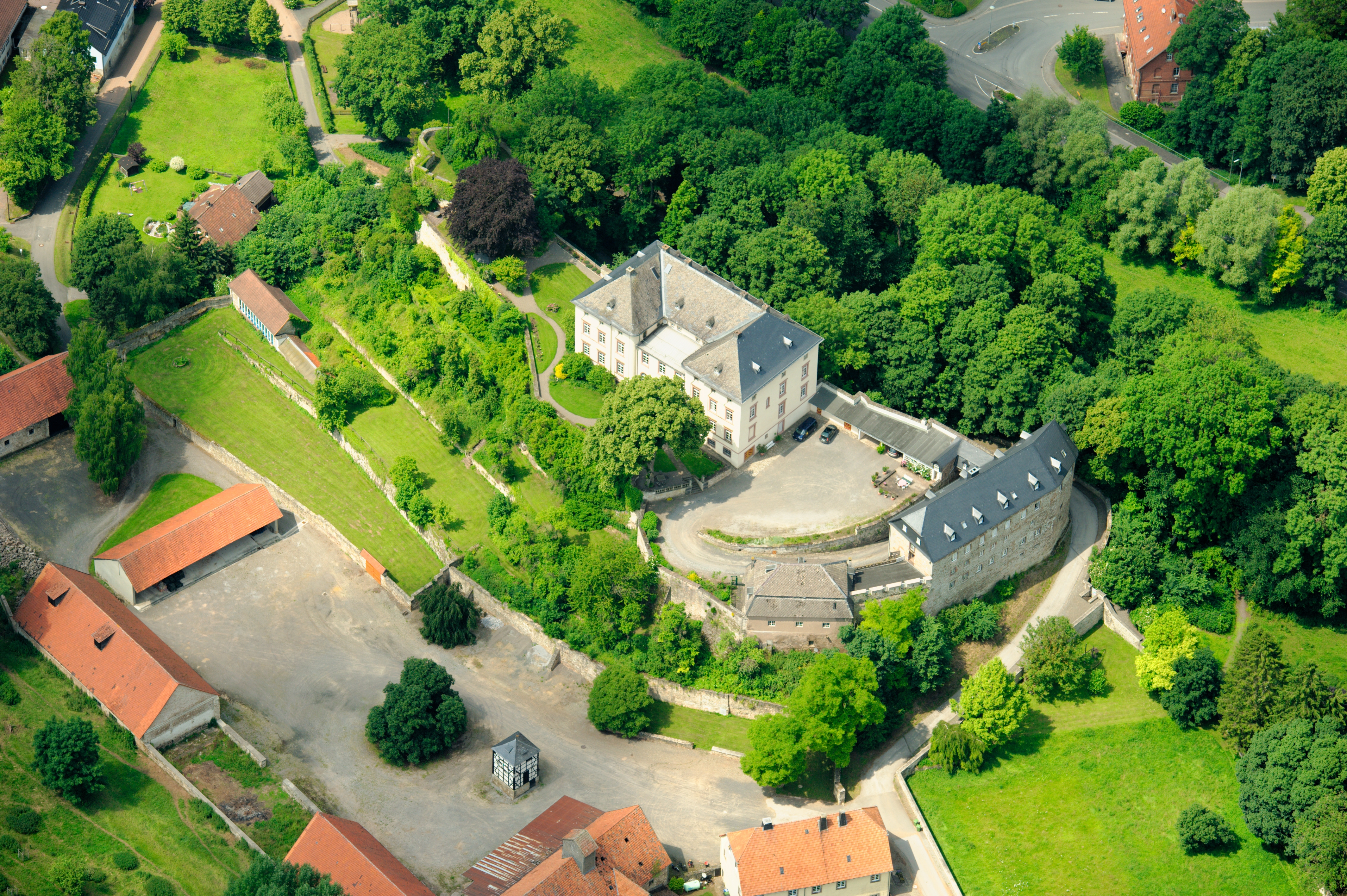 Fotoflug Sauerland-Ost – Burg Canstein aus südlicher Richtung The making of this document was supported by the Community-Budget of Wikimedia Germany.